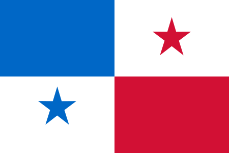 Original design of the Panamanian flag